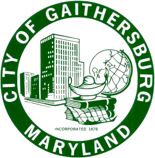 The seal of the city of Gaithersburg, Maryland. This image was extracted from the PDF document, 2003 Historic Preservation Element of the City of Gaithersburg's Master Plan, as revised in 2007. The image appears on page 3 of the document, page 6 of the PDF file. It is the image of the Gaithersburg city seal, as it is was adopted in 1970. The PDF document, which is the work of a local government, is unprotected on the Gaithersburg city website, and the PDF metadata contains no copyright notice or use restrictions. The image, as extracted from the PDF, was originally in BMP format. Photoshop was used to convert the document to a PNG to satisfy Wikipedia requirements, but no other modifications were made. As it was found on an edict of the Gaithersburg city government and dates back to 1970, the seal is in the public domain. The city's charter states that it was adopted on February 16, 1970.